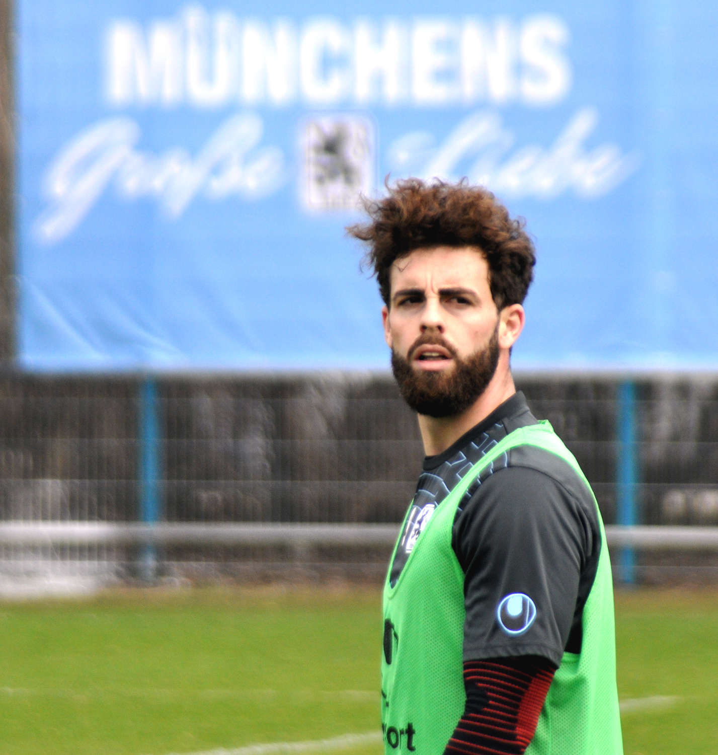 Rodrigo Ríos Lozano